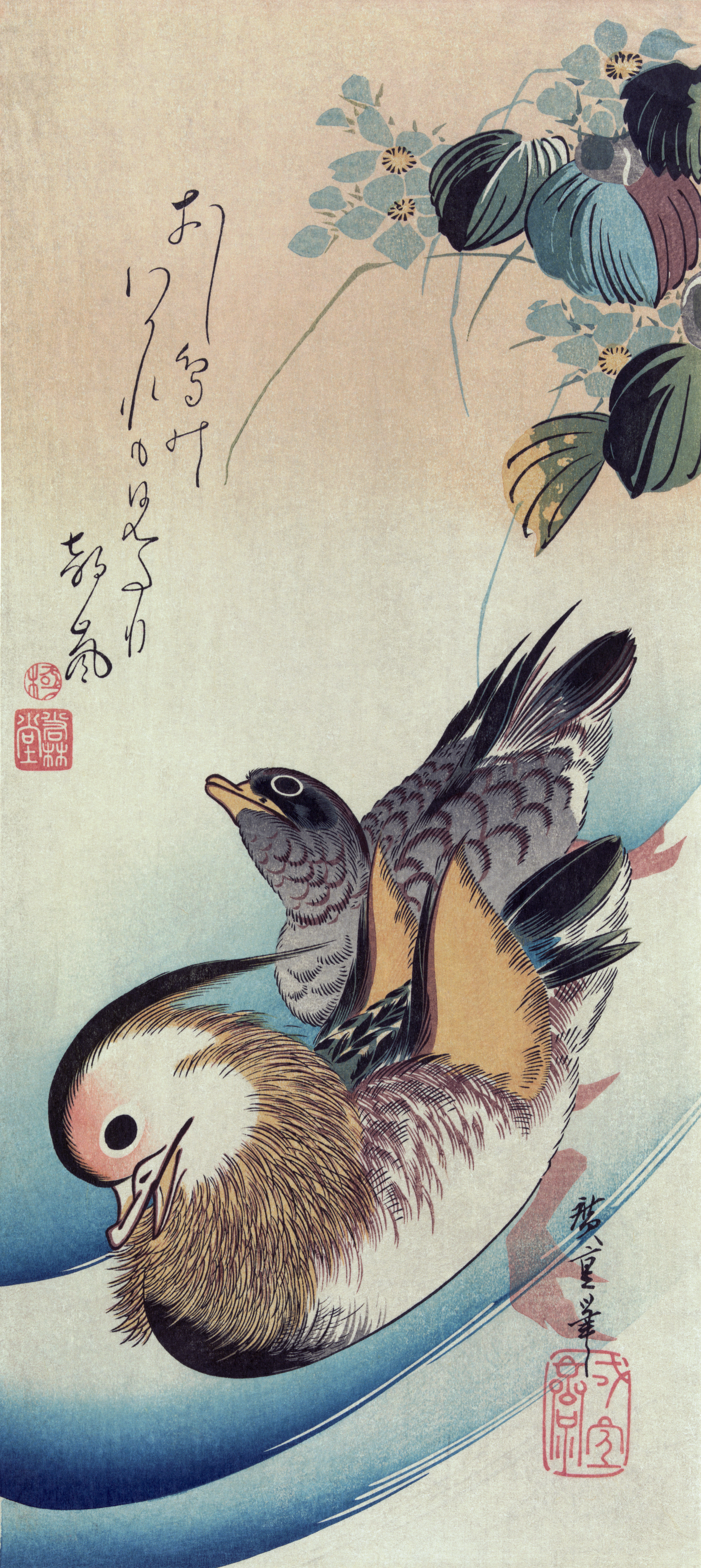 "Oshidori", trans. "Mandarin Ducks" Color woodcut. "Out in a morning wind, Have seen a pair of mandarin ducks parting. Even the best loving couple makes a quarrel."